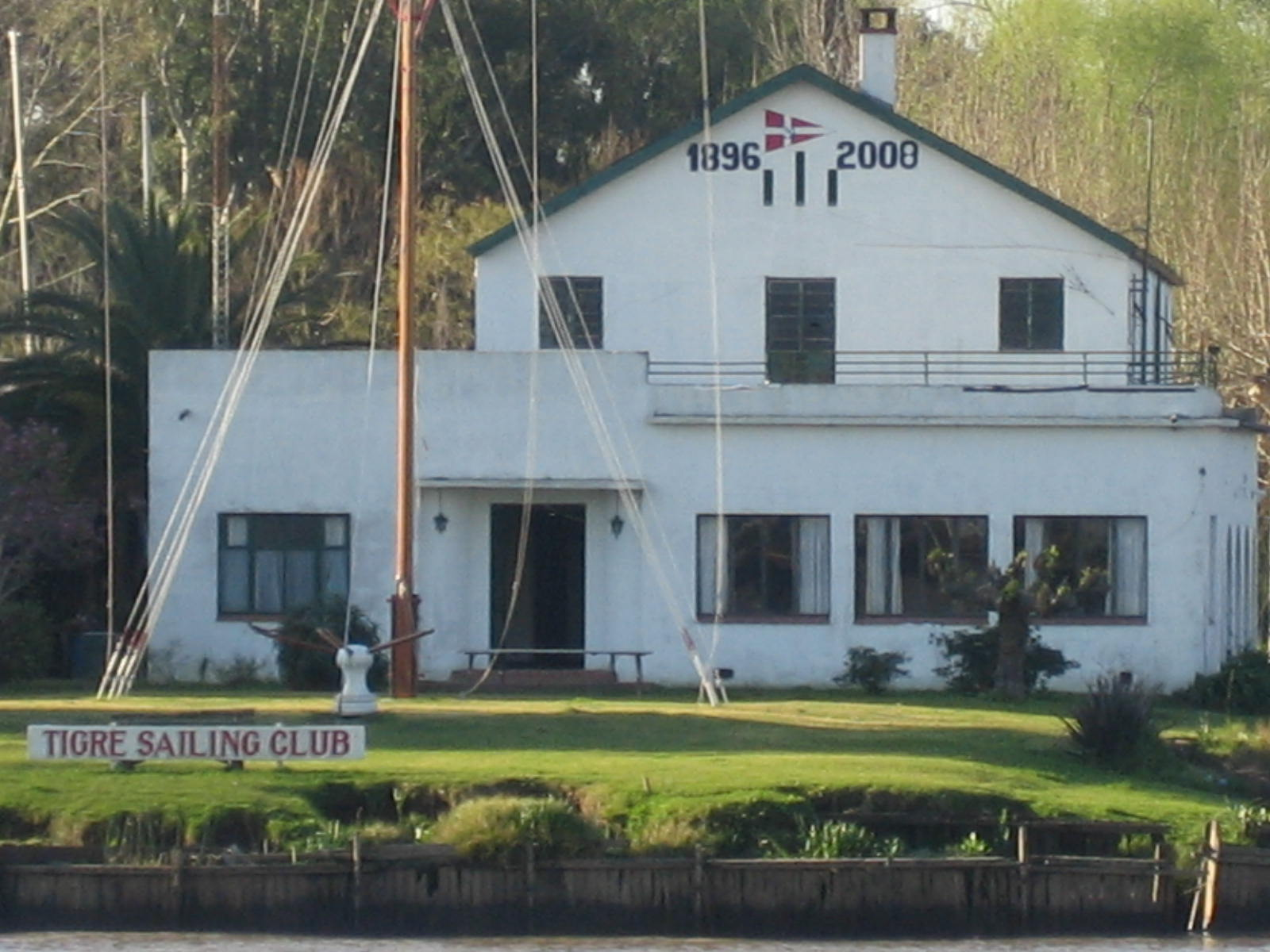 Tigre Sailing Club - El Tigre - Buenos Aires - Argentina